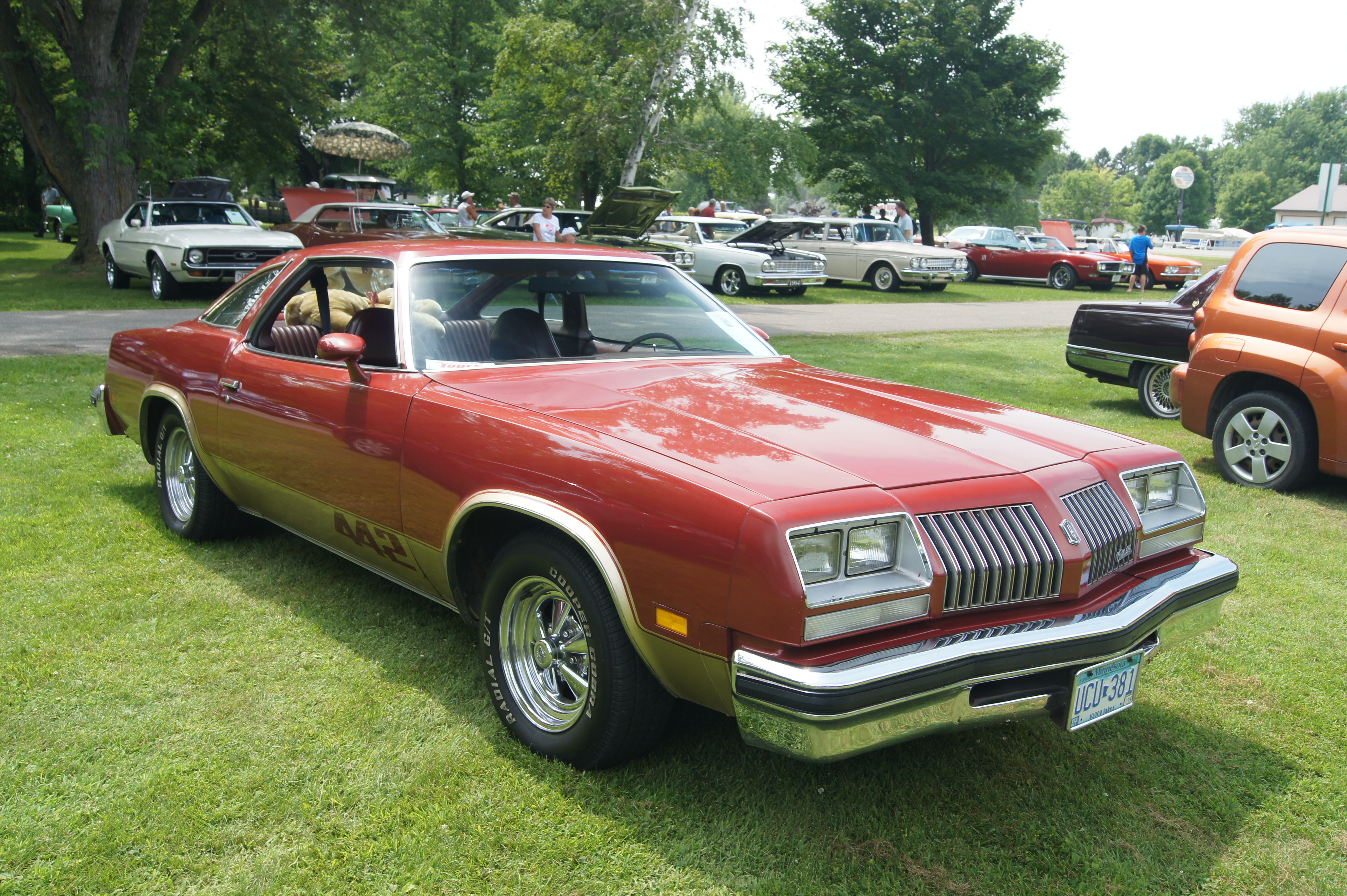 Lake Minnewaska Classics Car Show August 2, 2014 Starbuck, Minnesota Thousands more of my car pictures available by clicking link below